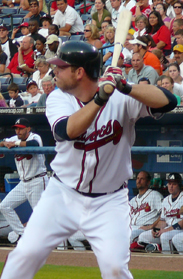 I took this photo on June 5, 2007 19:46, 7 June 2007 . . Chrisjnelson . . 183×279 (110 KB)